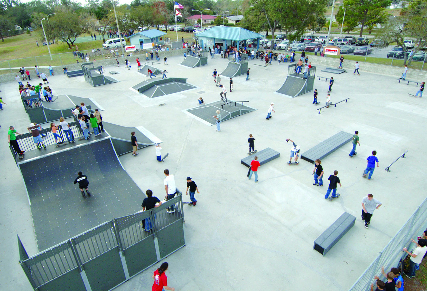 Skatepark designed and manufactured by Landscape Structures Inc.